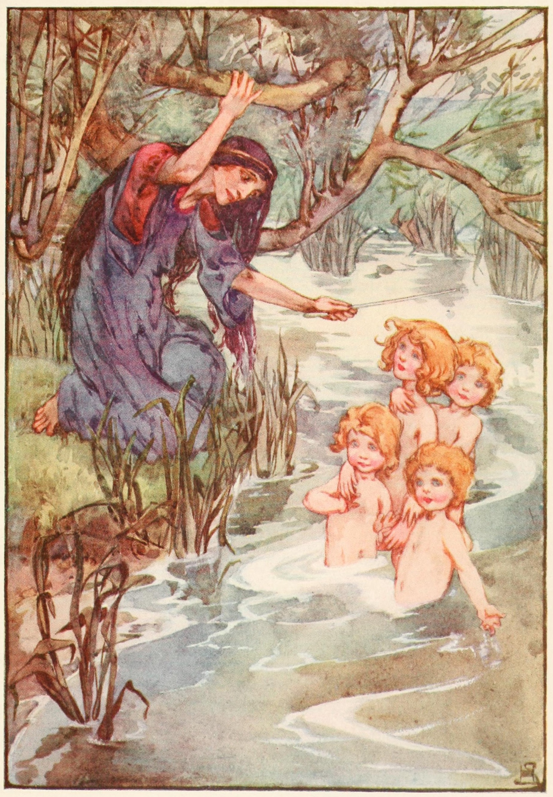 Illustration from a collection of myths, The children of Lir [Lîr]